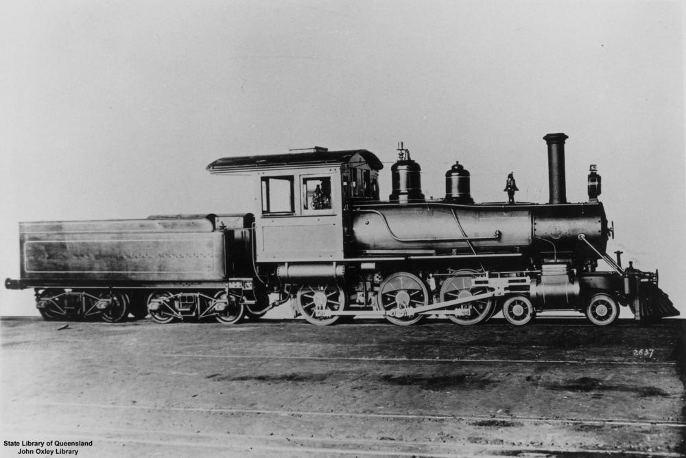 Baldwin B13 class steam locomotive, 1892. This locomotive was purchased in 1911 by the Cairns - Mulgrave Tramway and was used until 1924. According to a description supplied with photograph, the B13 (Baldwin) No. 5 locomotive was built jointly in England by Kitson & Co. and Deeks and Co. and was first introduced in 1892. However, according to Facebook this information might be wrong.